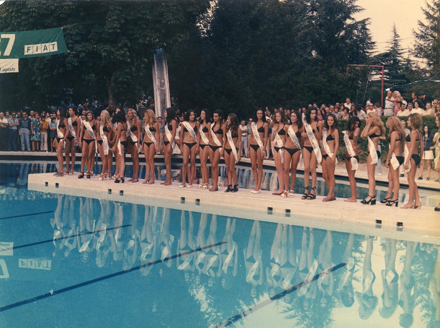 miss italia 1971